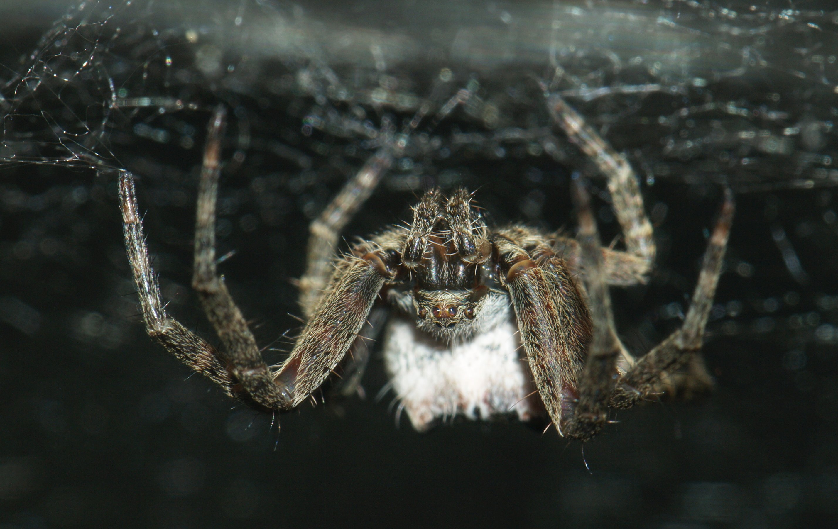 Cyrtophora citricola in its web, Cologne Zoo, Germany.